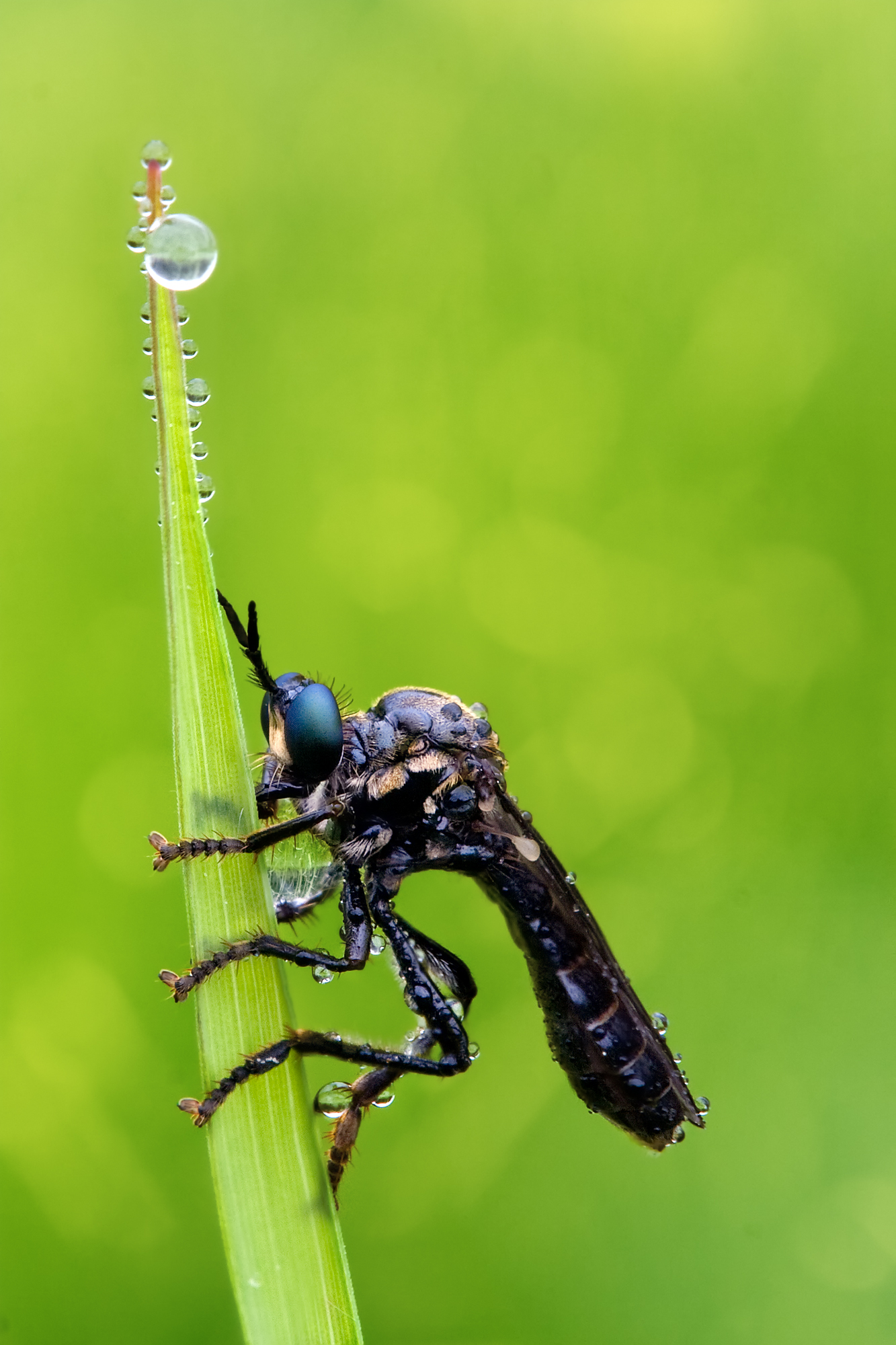 (Dioctria atricapilla) Flies in the Diptera family Asilidae are commonly known as robber flies.